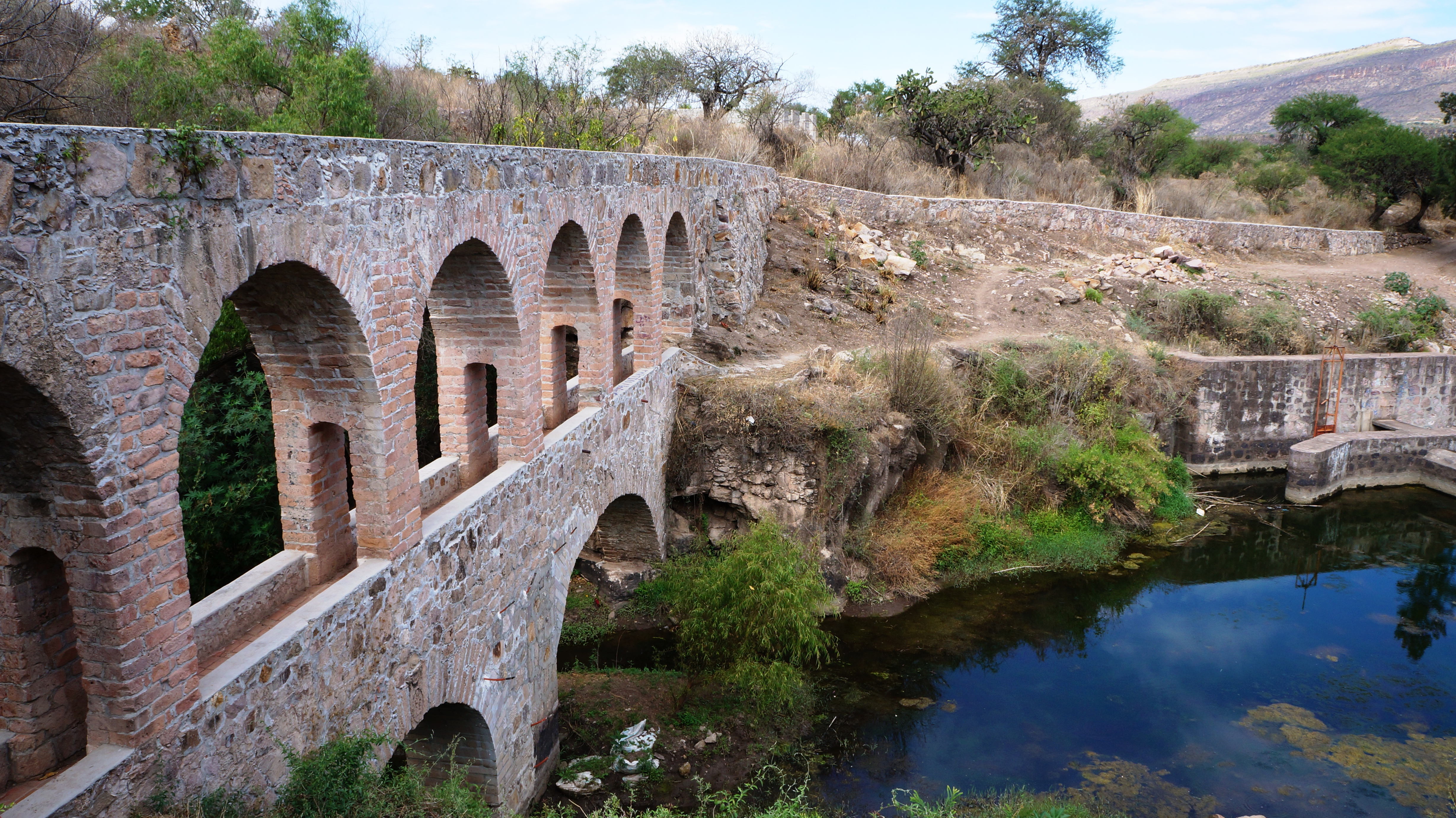 Colonial aqueduct in the north of Jalisco, Mexico